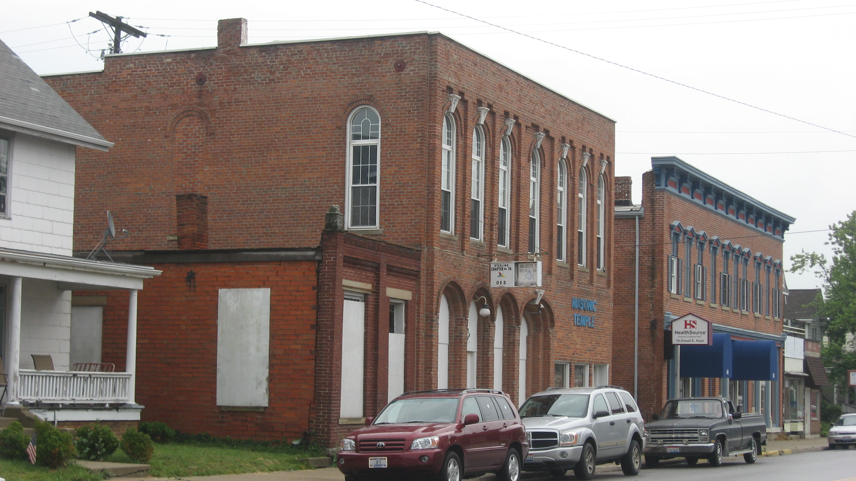 Buildings on the eastern side of the first block of N. London Street (State Route 56) in Mount Sterling, Ohio, United States. This block is part of the Mount Sterling Historic District, a historic district that is listed on the National Register of Historic Places.